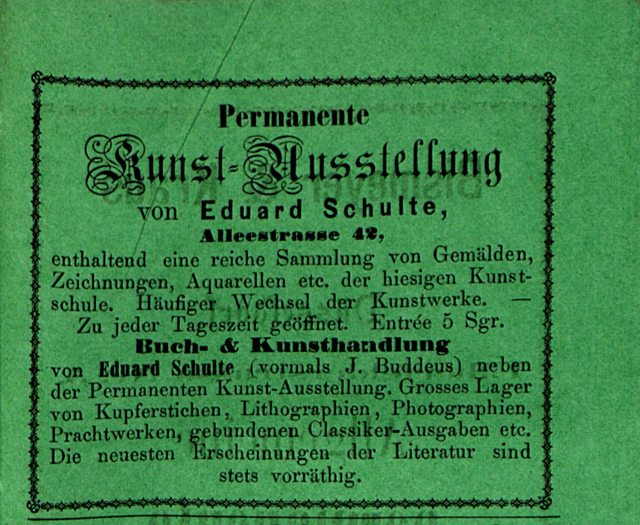 t